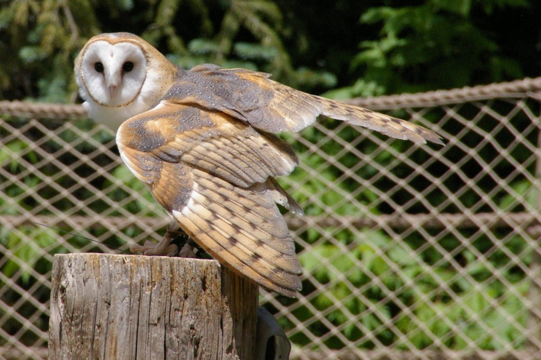 American Barn Owl Tyto furcata at Hogle Zoo, Utah, USA.